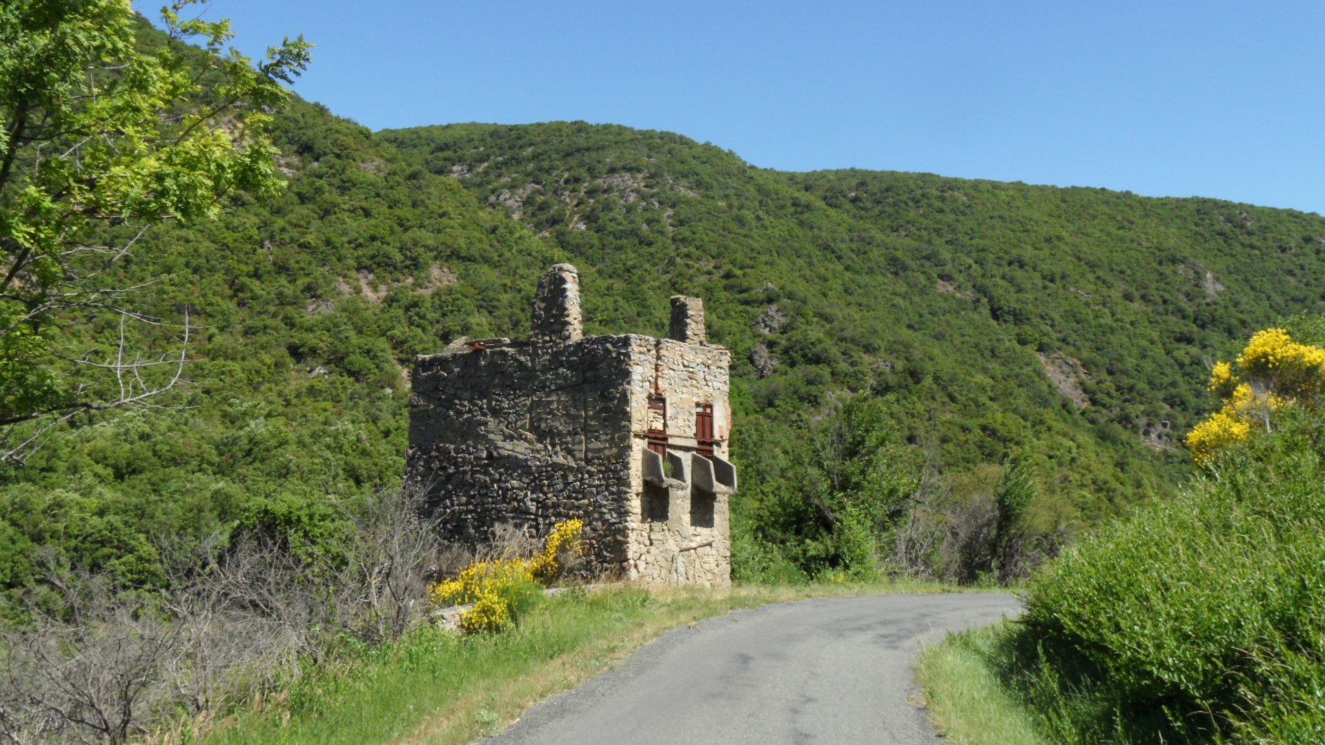 Ruin near Massac, Aude, France